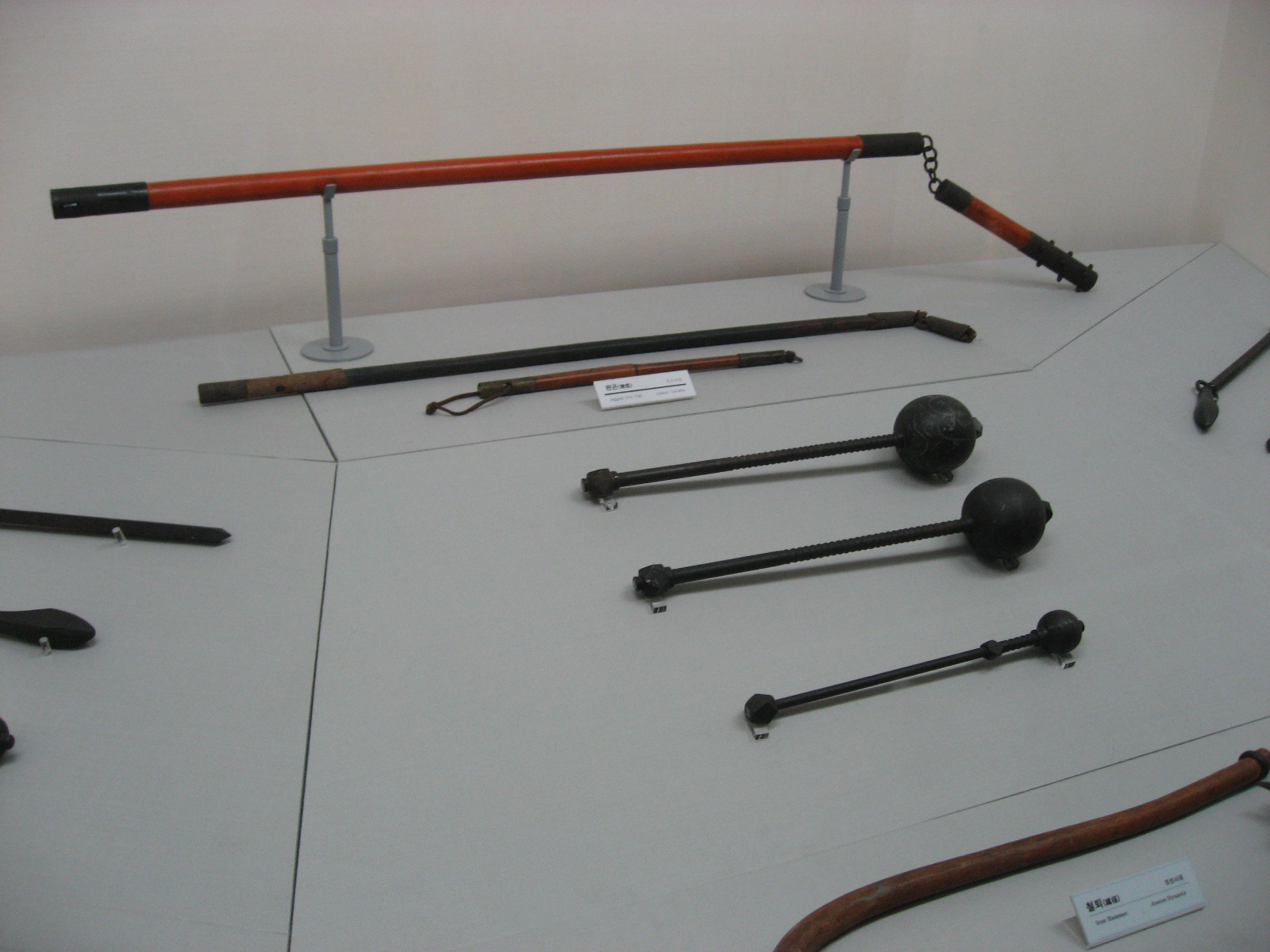 Different weapons in a Korean War Memorial museum, Seoul; types of military flails at the top